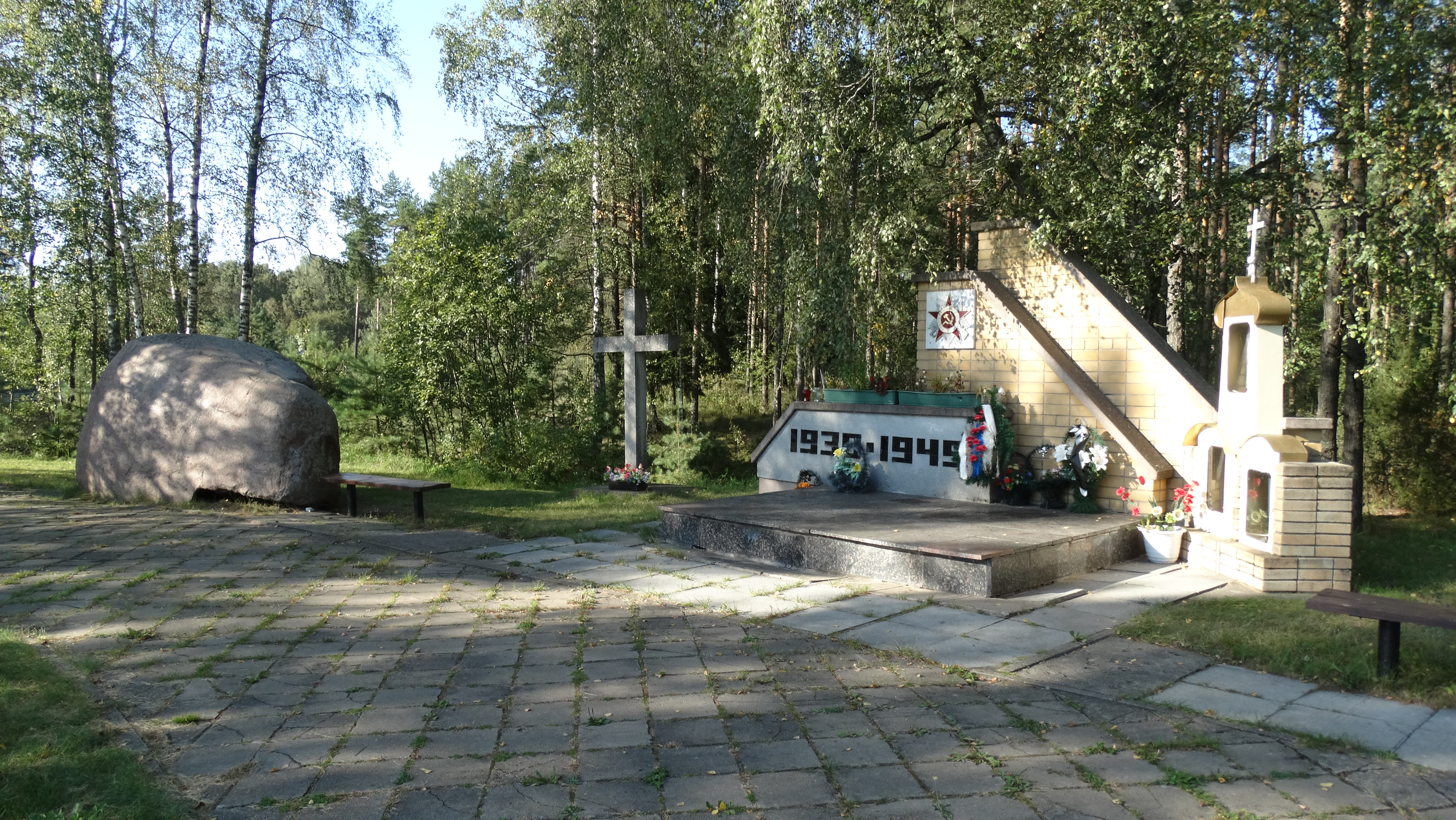 World War II memorial, Visaginas, Lithuania